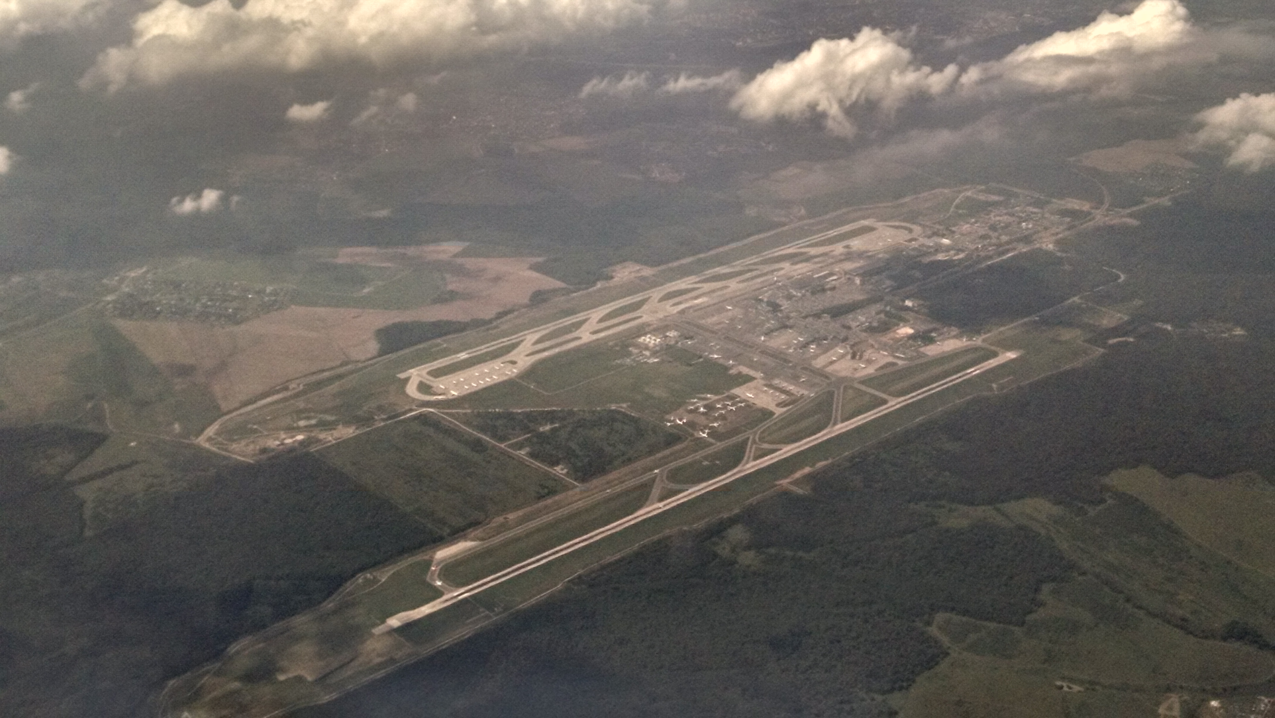 Aerial view of Domodedovo International Airport